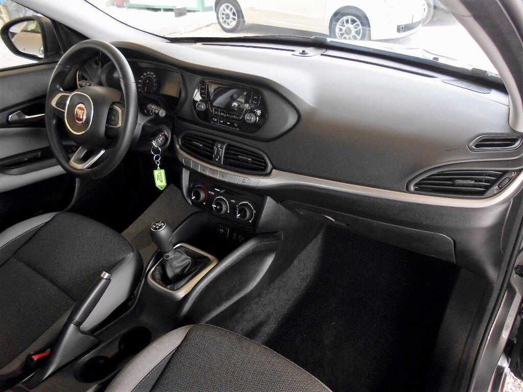 2018 Fiat Tipo interior UConnect 5”